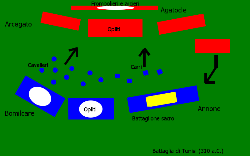 Battle of White Tunis (310 BC)